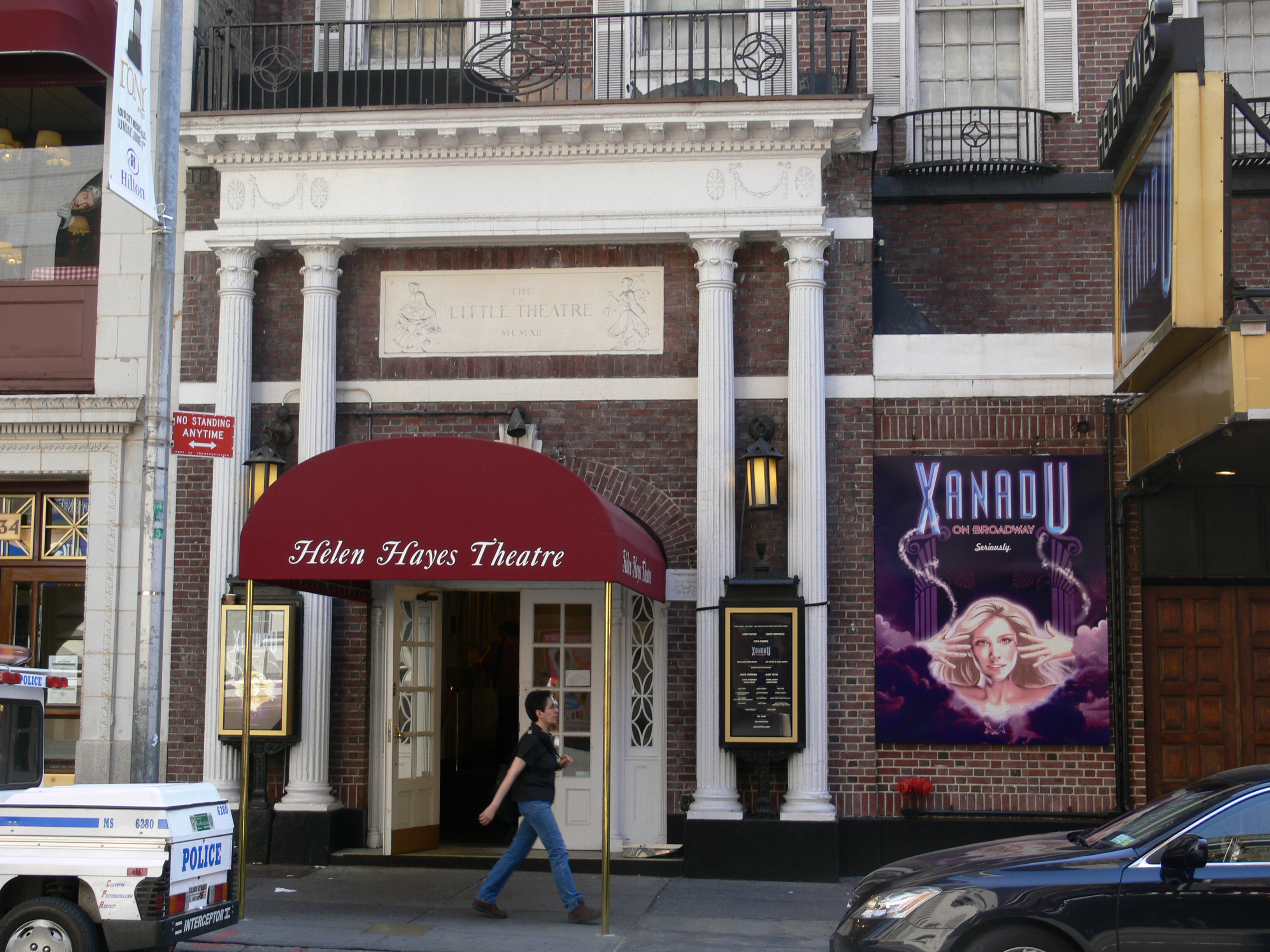 Helen Hayes Theatre (formerly the "Little Theatre") 240 West 44th Street, Manhattan, New York City